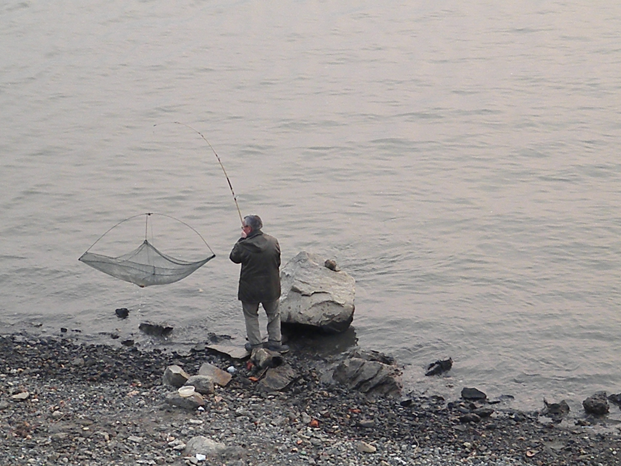 Fishing nets